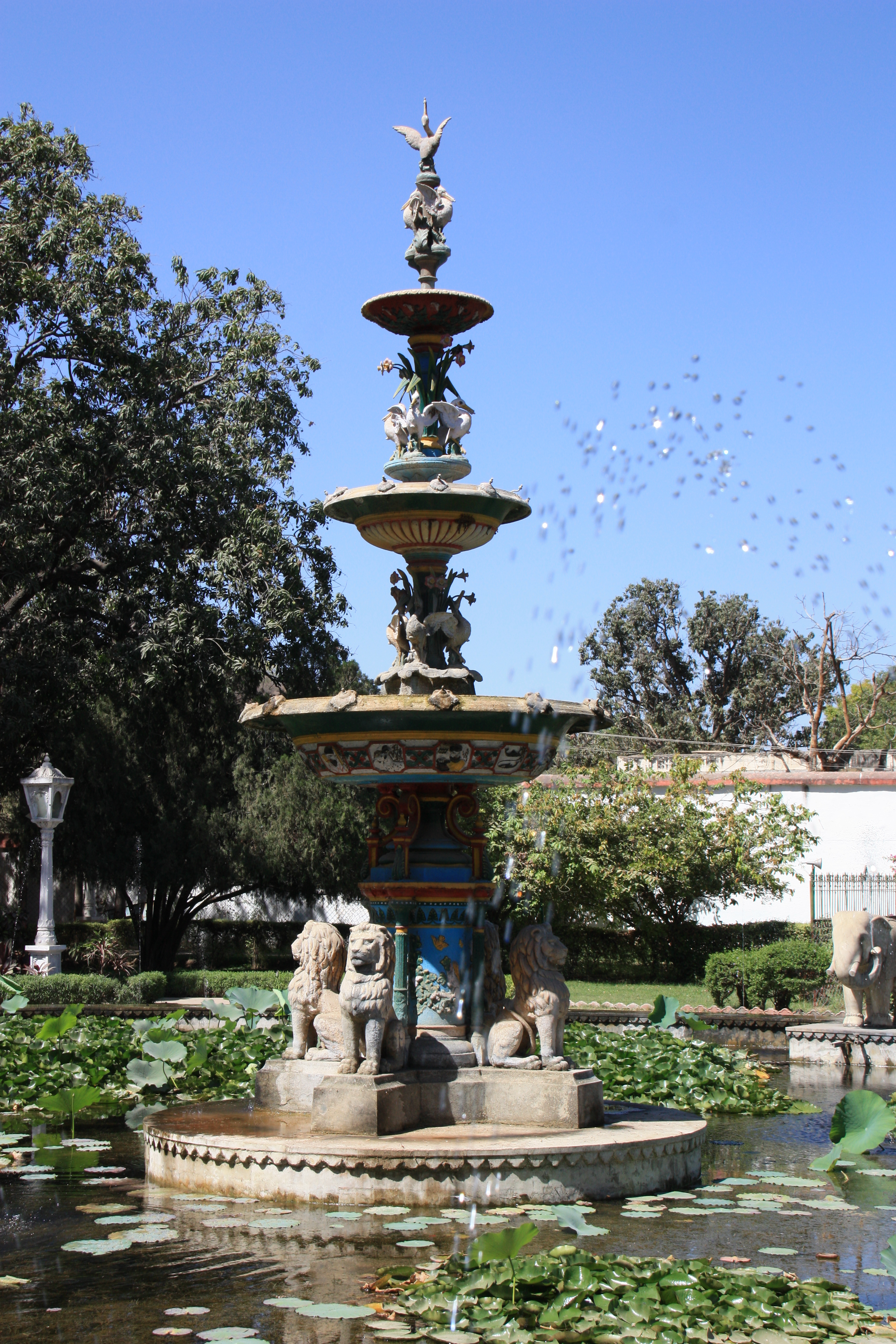 Photo of fountain at Saheliyon-ki-Bari in Udaipur, India